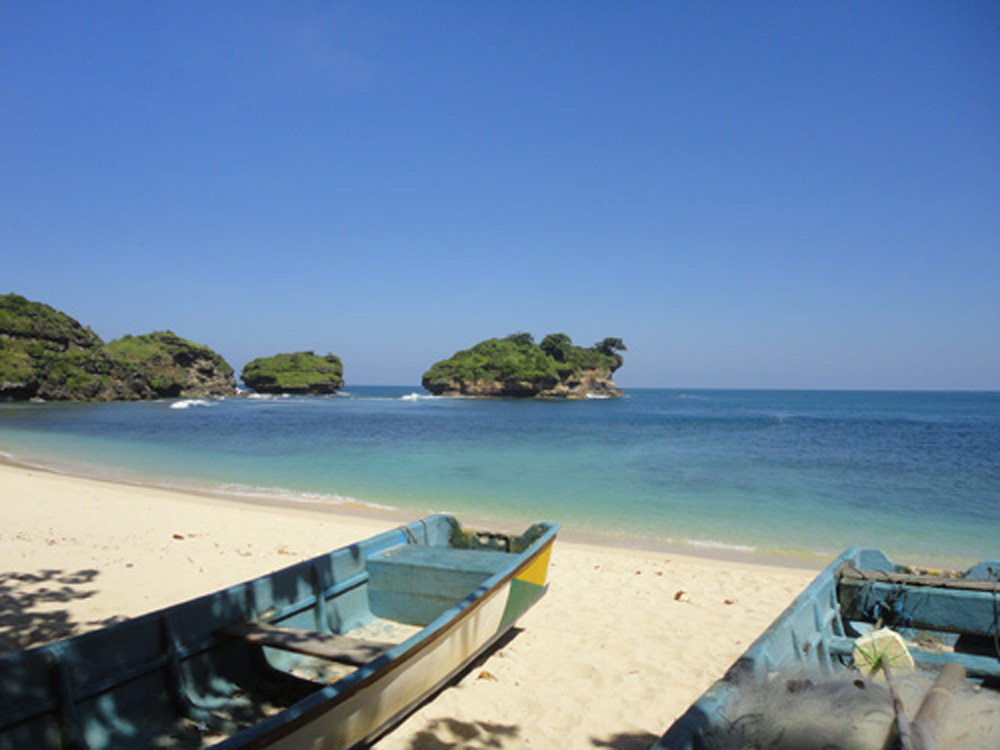 Watu Karung Beach is one of beautiful beaches in Pringkuku, Pacitan Regency, East Java, Indonesia